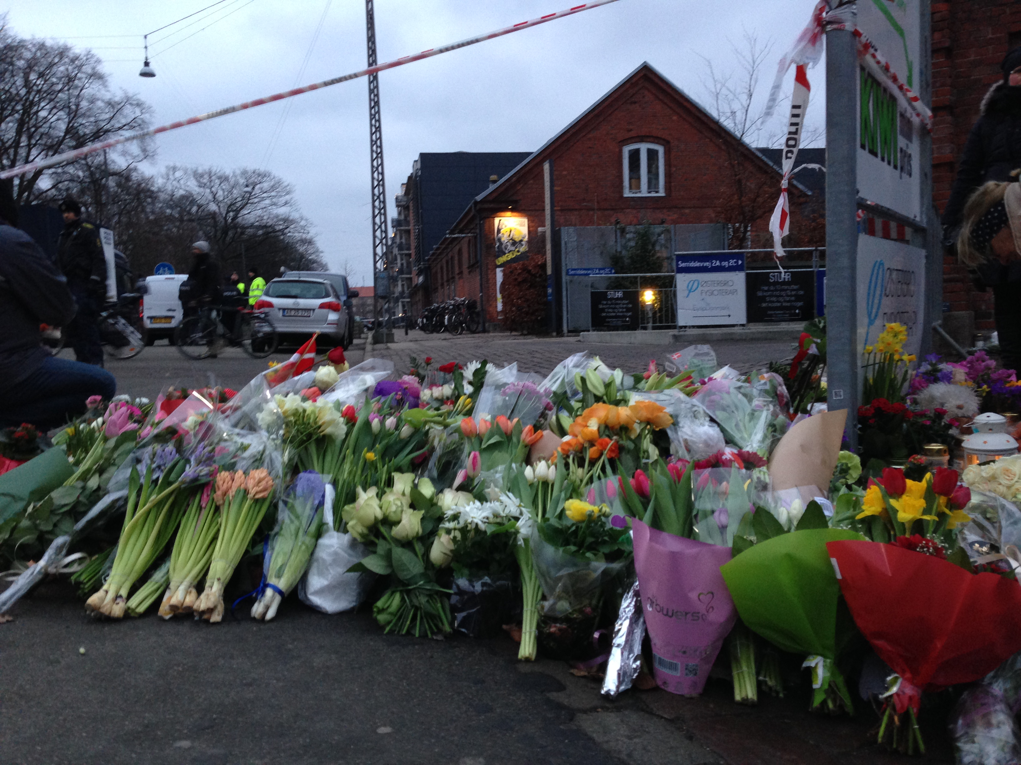 Blomster ved Krudttønden på Østerbro, 15/2 2015